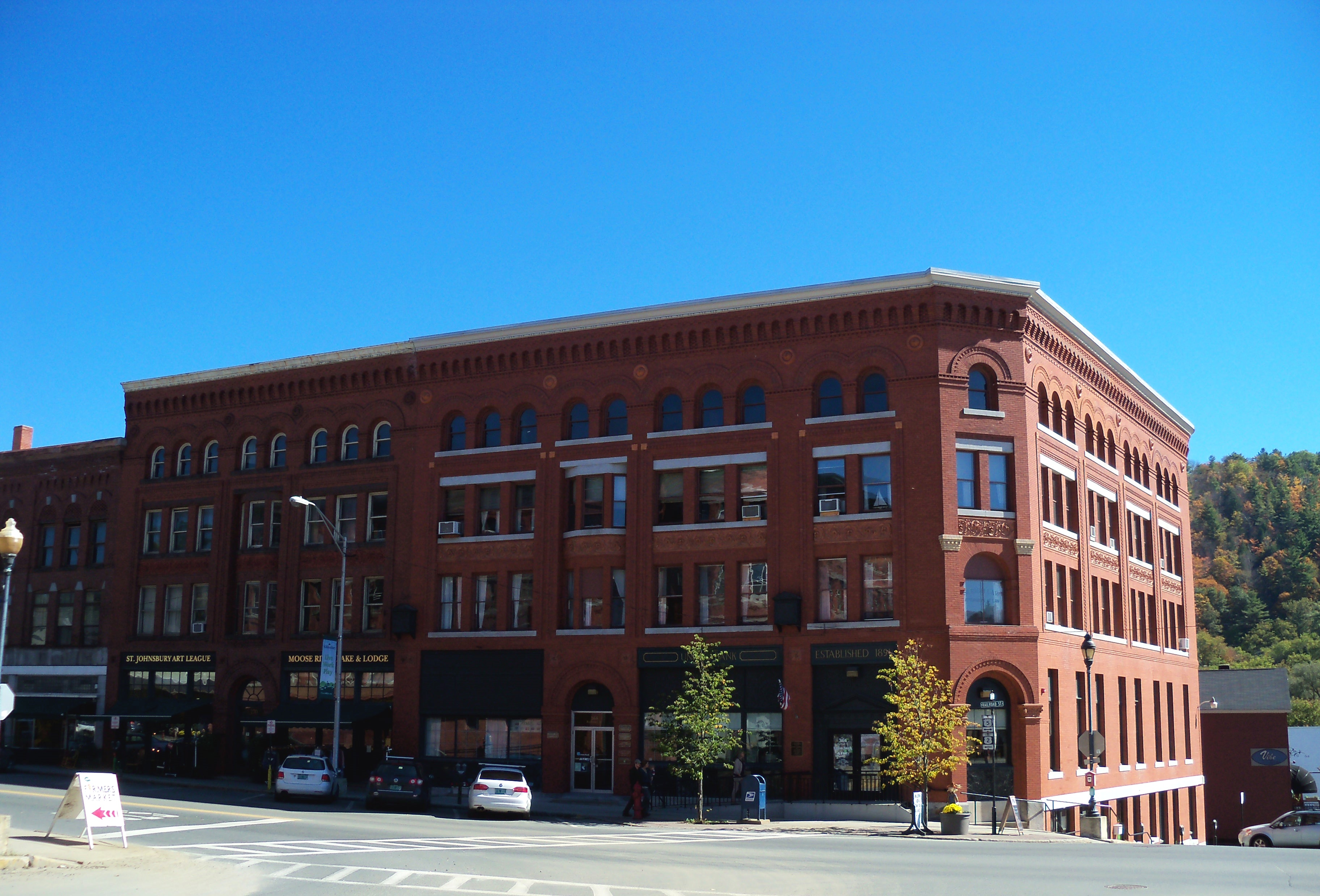 Building in downtown St. Johnsbury, Vermont, USA.